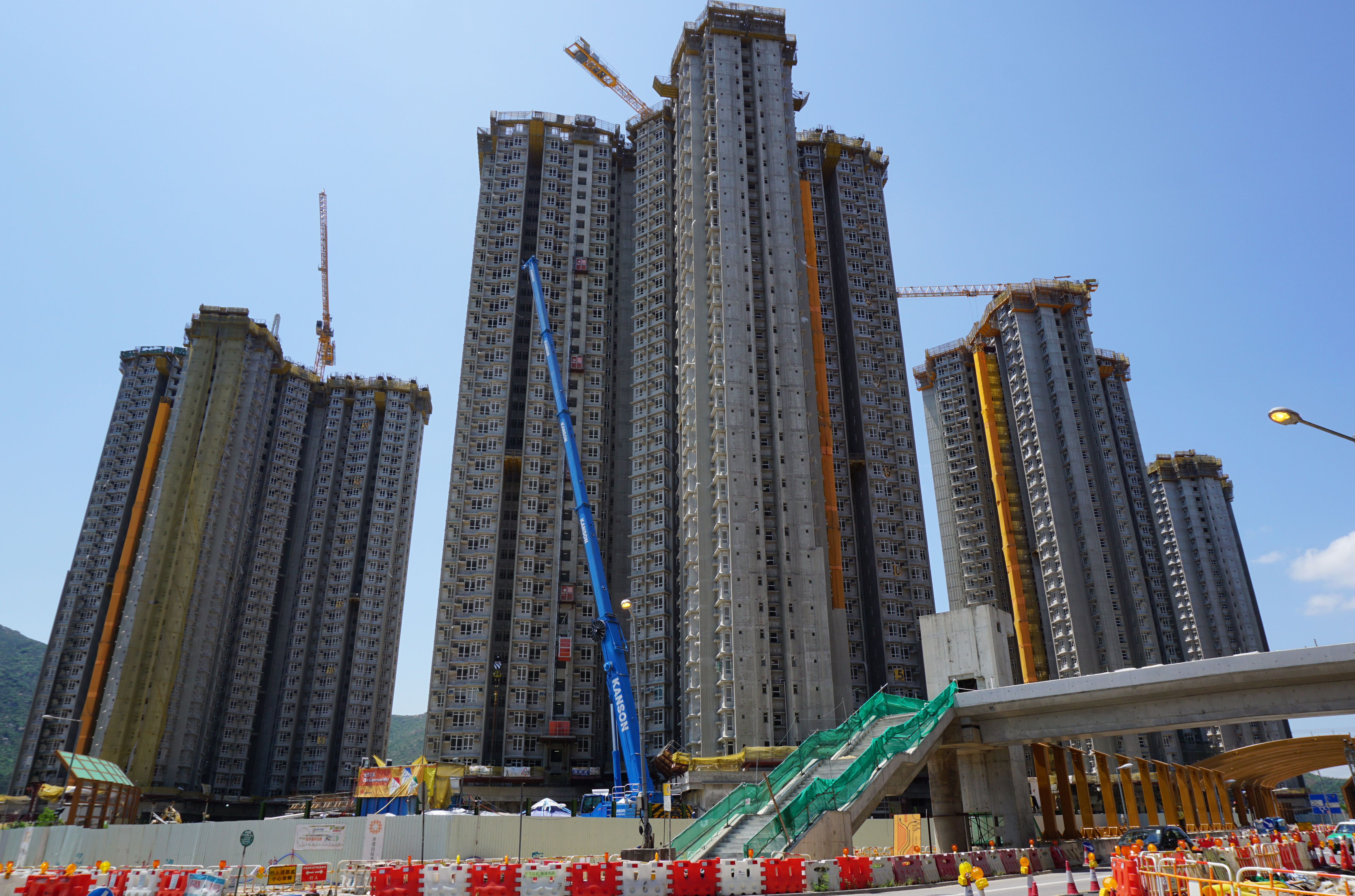 Yan Tin Estate in Tuen Mun, Hong Kong.